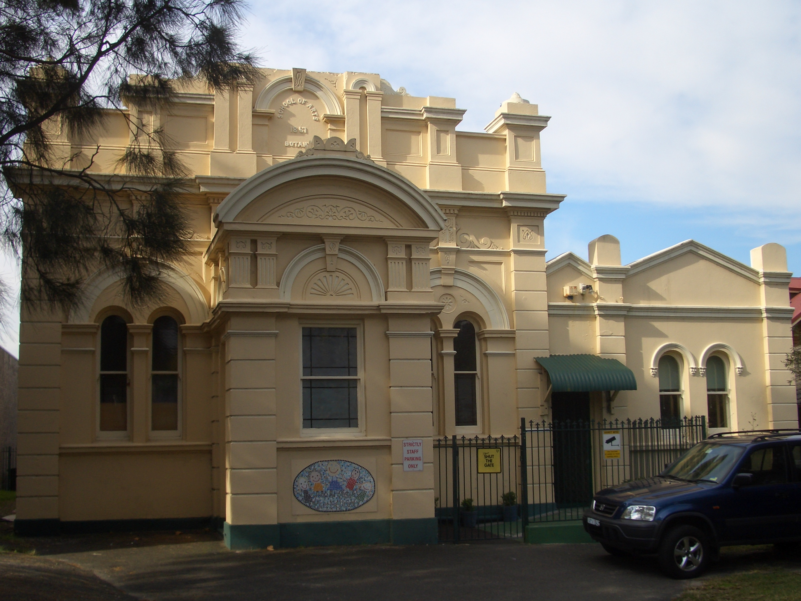 Botany_School_of_Arts.JPG